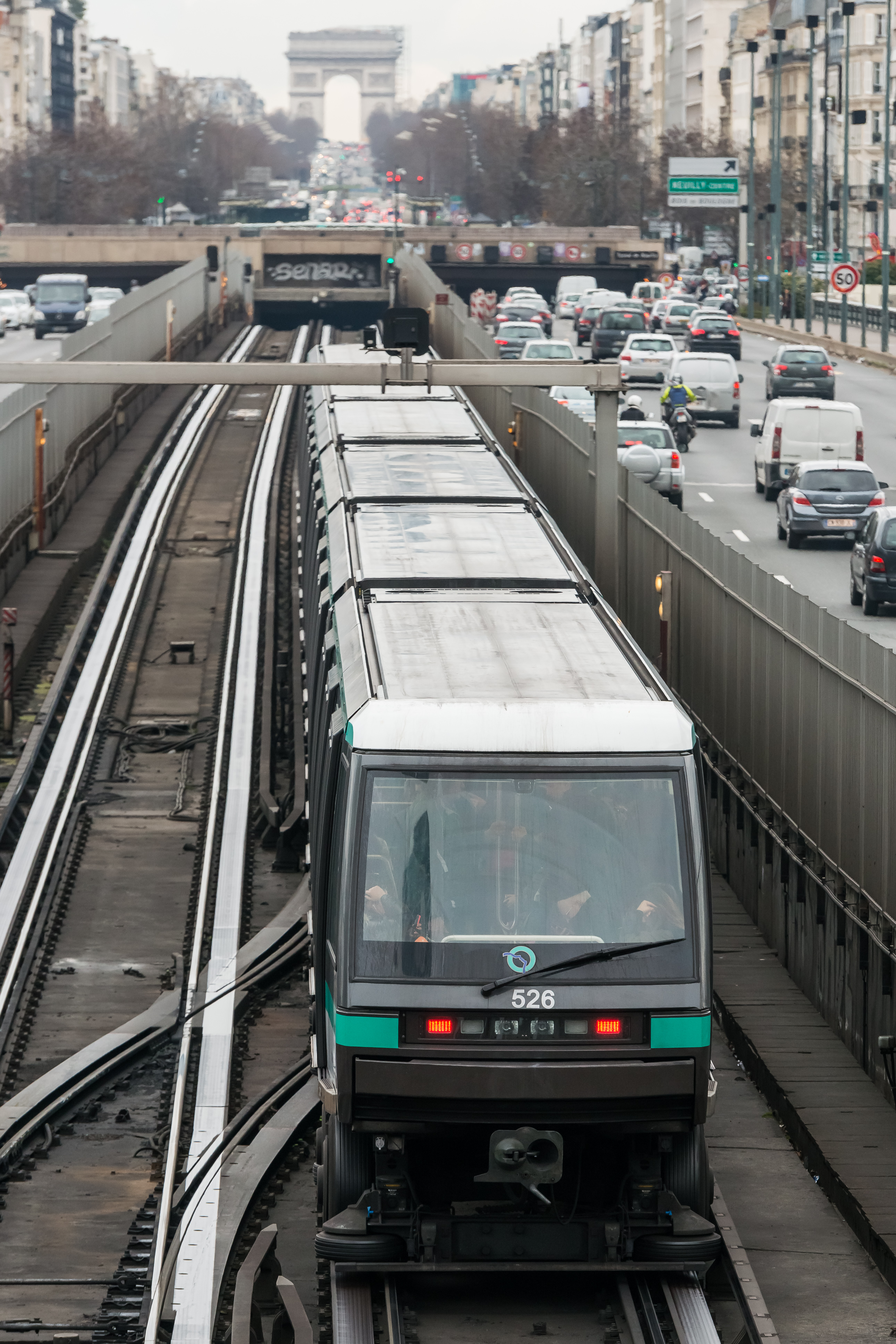 A Paris Métro MP 05 train leaving the Esplanade de la Défense station